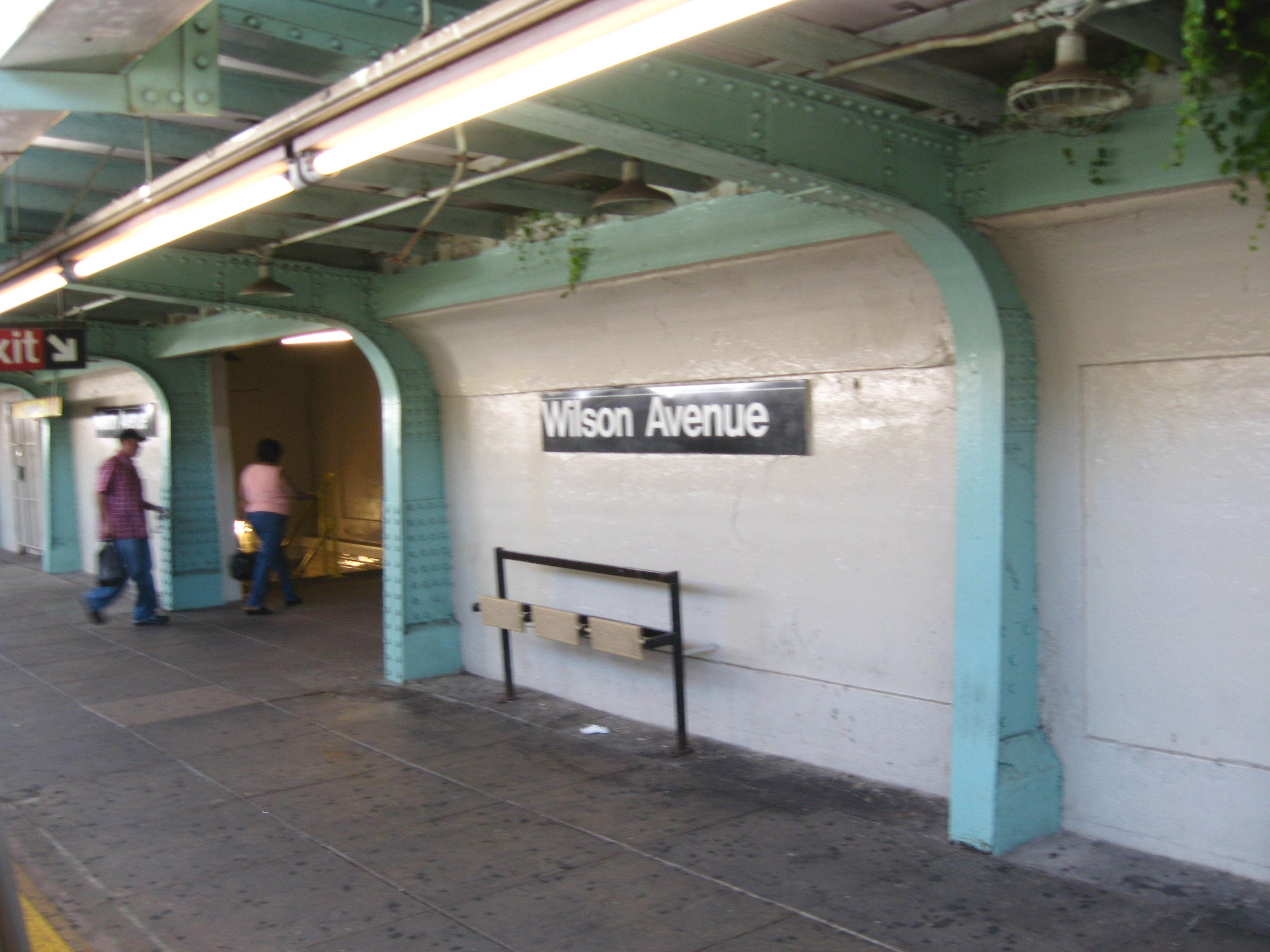 Looking west on southbound platform of Wilson Avenue (BMT Canarsie Line). See also File:Wilson Av BMT sta jeh.JPG